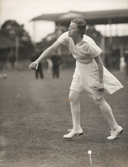 Myrtle MacLagan, English women's cricketer, 1934-35 [picture]